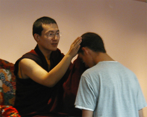 H.H. the 17th. Karmapa Trinlay Thaye Dorje: He gave a blessing to each person in the room. July 03, Inn at Morro Bay.